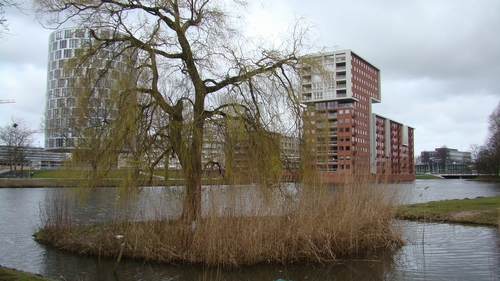 New houses in Osdorp; Meer en Oever